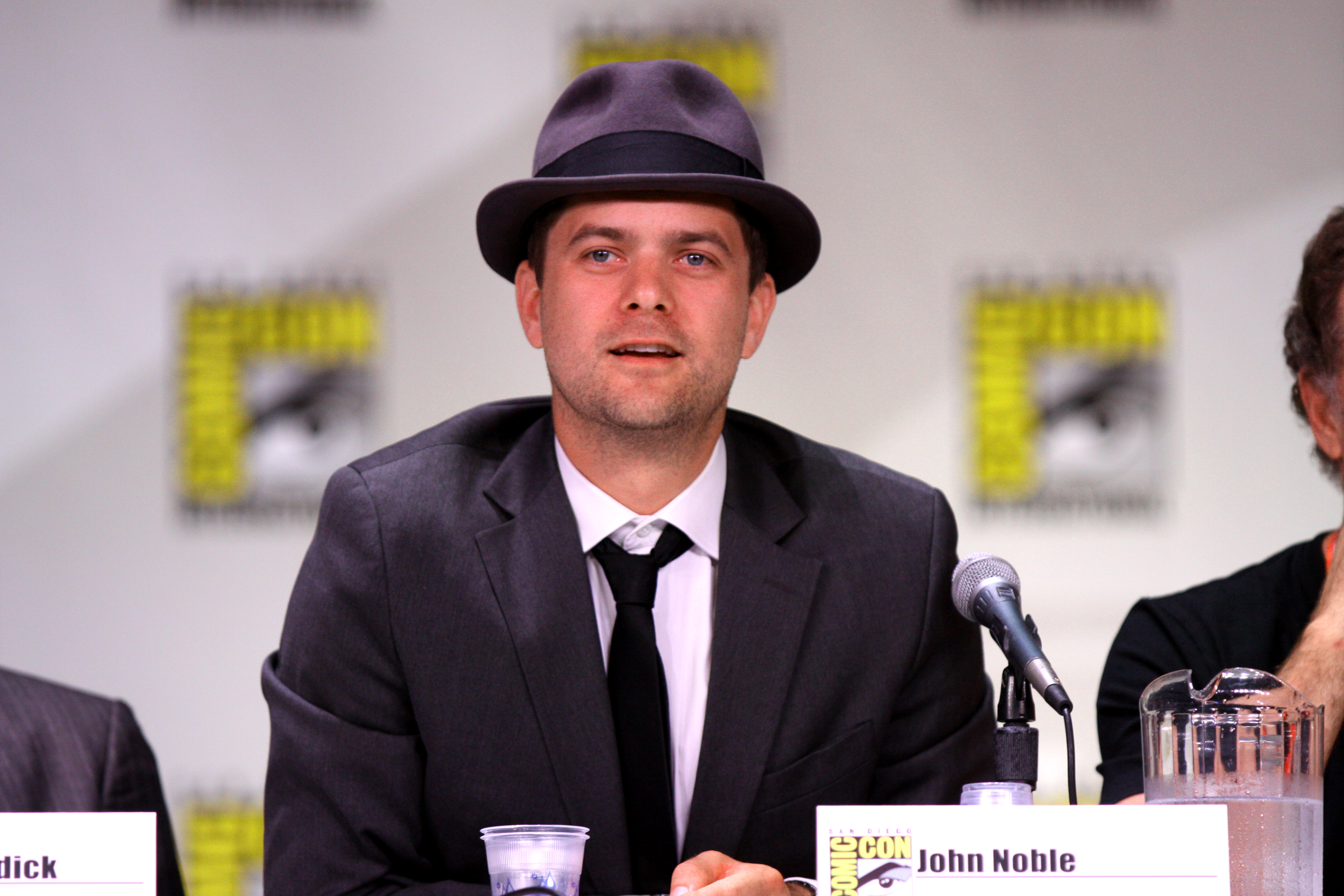 Joshua Jackson at the 2011 San Diego Comic-Con International in San Diego, California.